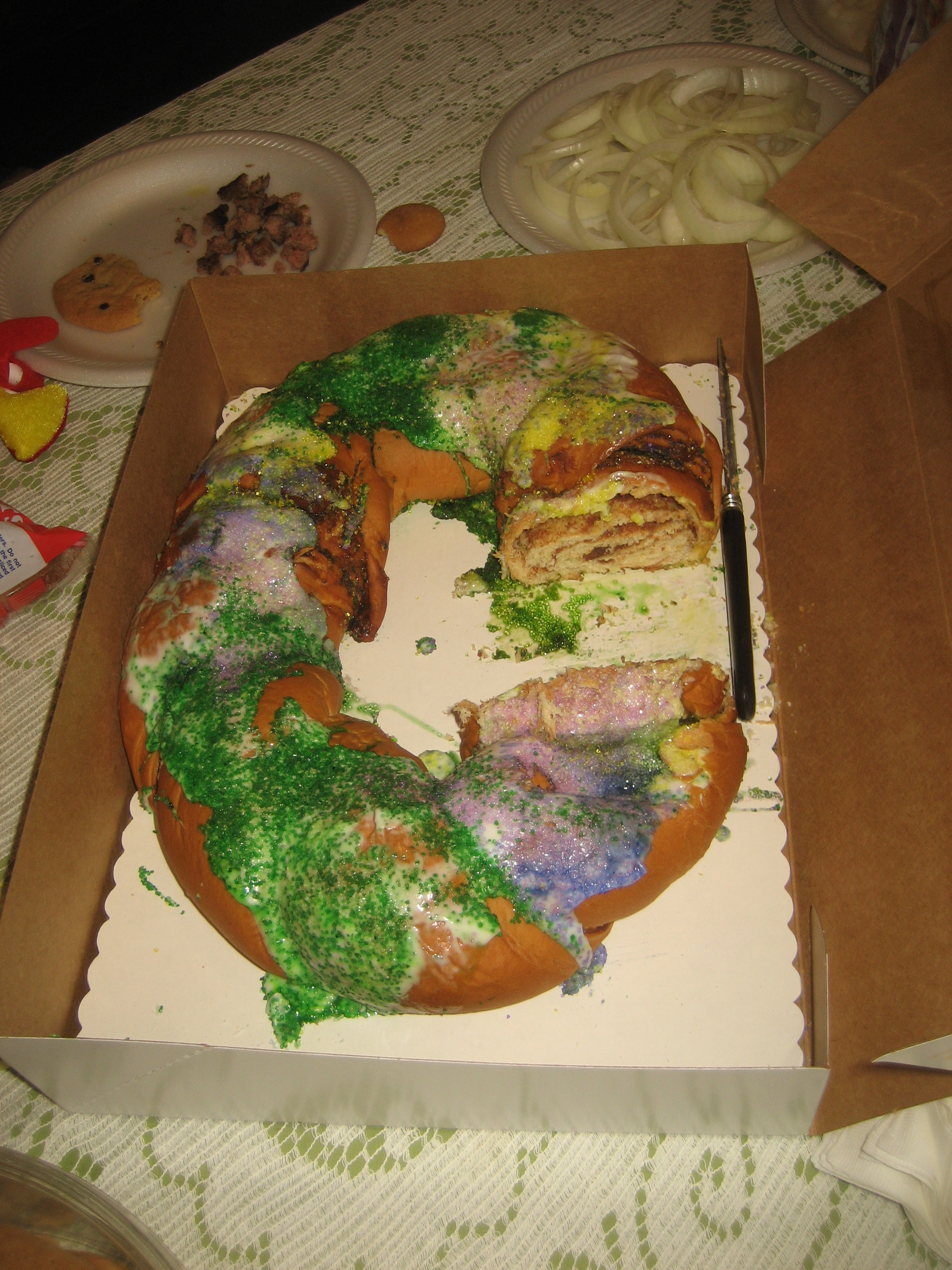 King cake at Carnival party, Uptown New Orleans